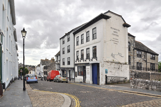 Plymouth Arts Centre, Looe Street - Plymouth for a guide to the arts in Plymouth.